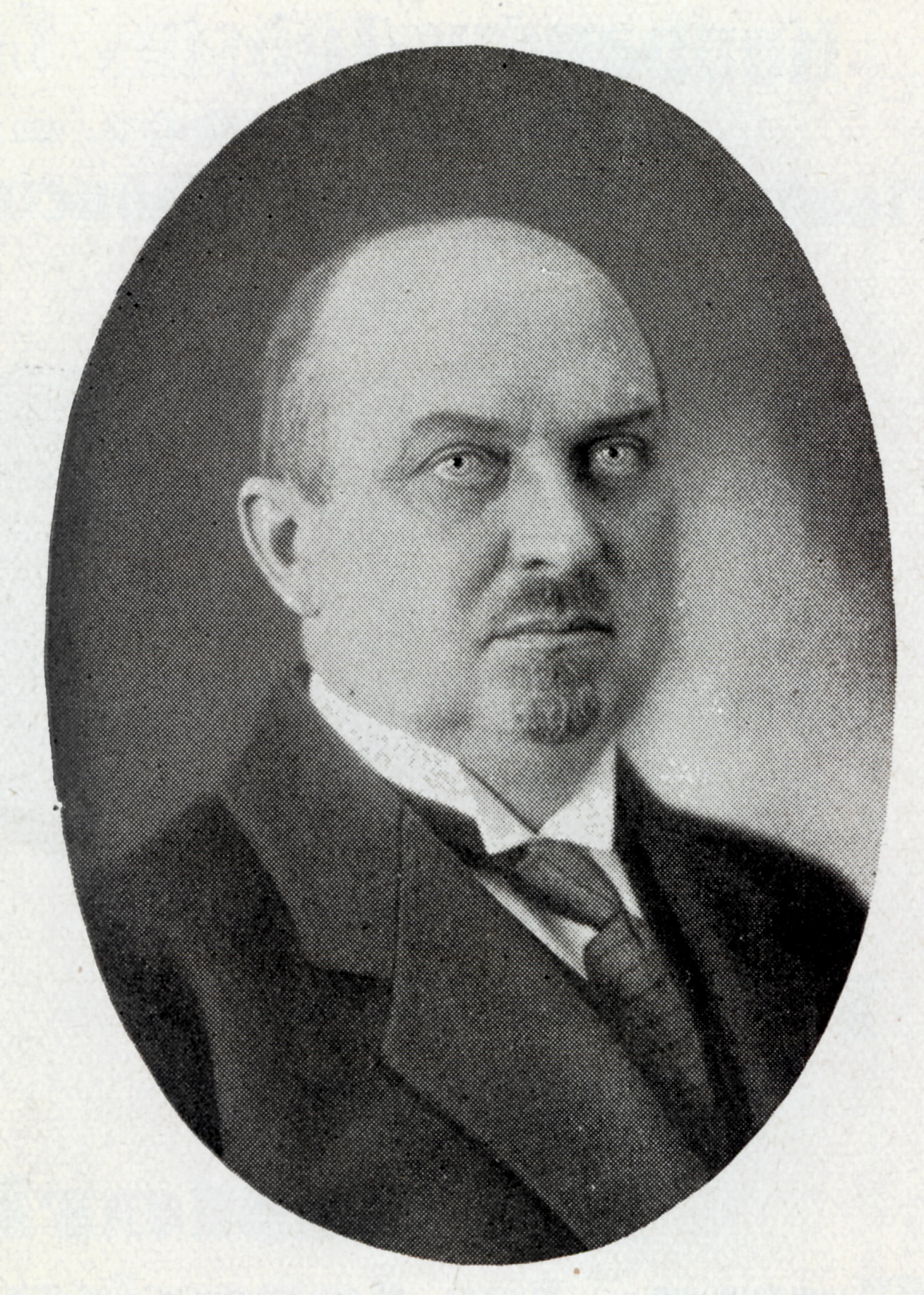 Estonian politican Johannes Märtson.